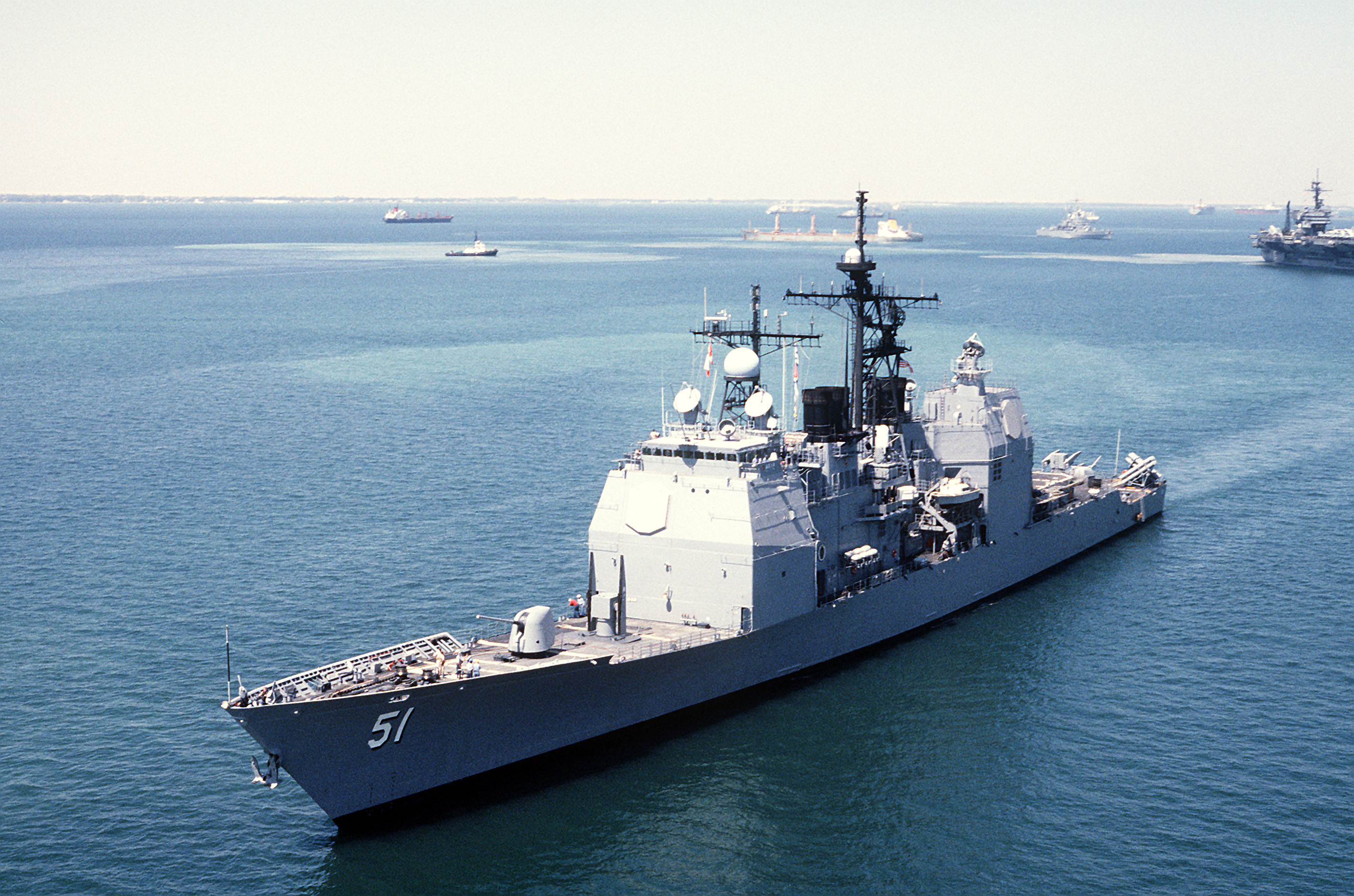 A port bow view of the guided missile cruiser USS THOMAS S. GATES (CG-51) as it waits in the Great Bitter Lake to complete its transit of the Suez Canal. The ship is heading for the Red Sea to support Operation Desert Shield.